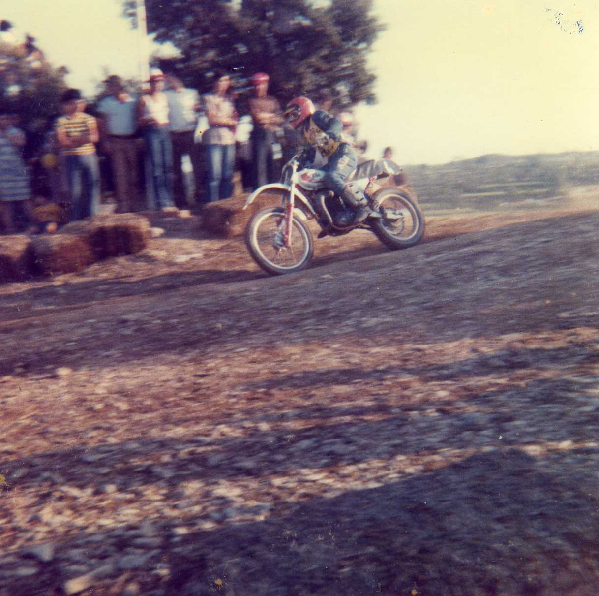 Siegfried Lerner (KTM) at Circuit del Cluet, Montgai (Catalonia), during the 1978 spanish MX GP 125cc.